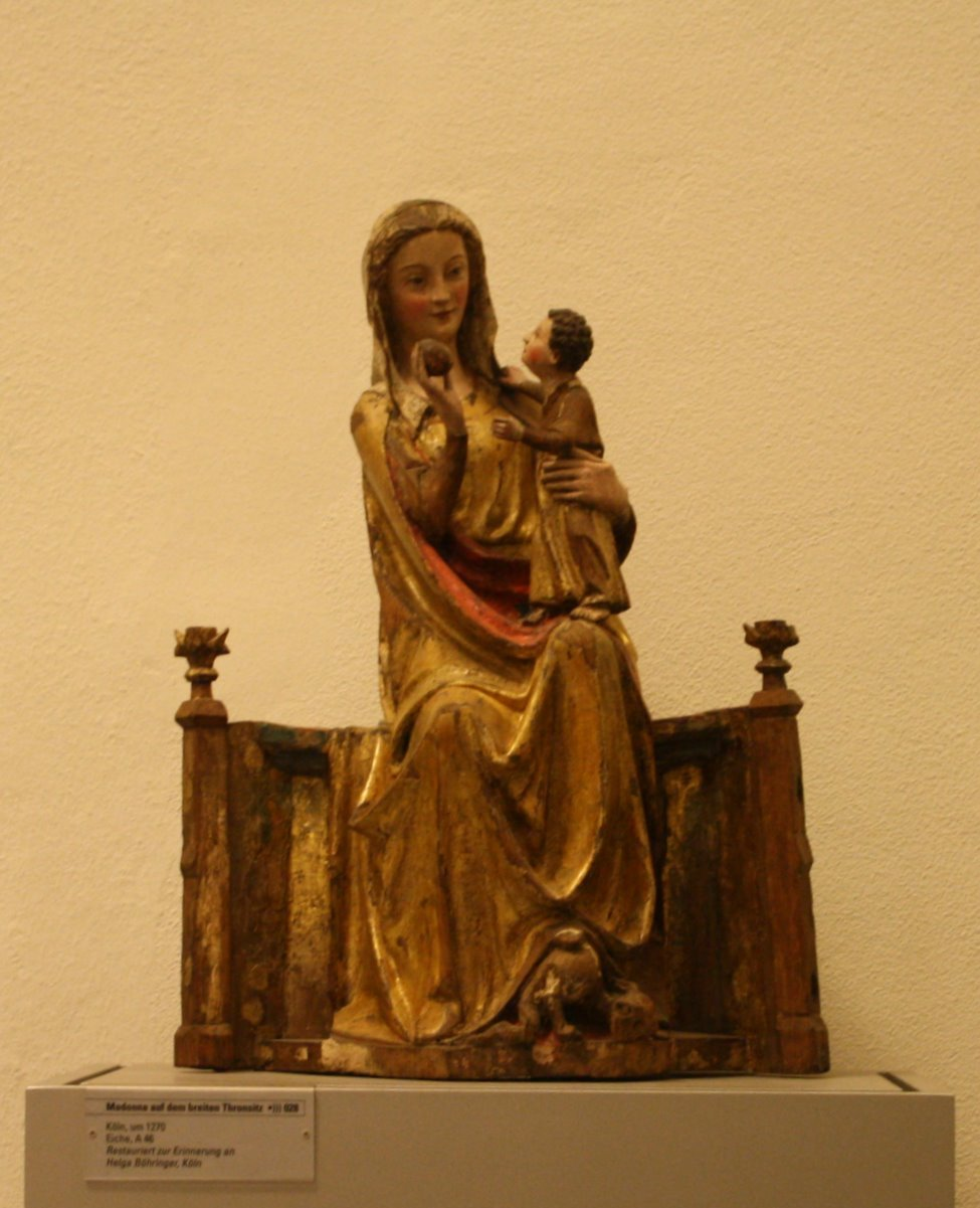 Cologne, Enthroned Madonna in Museum Schnütgen ca. 1270